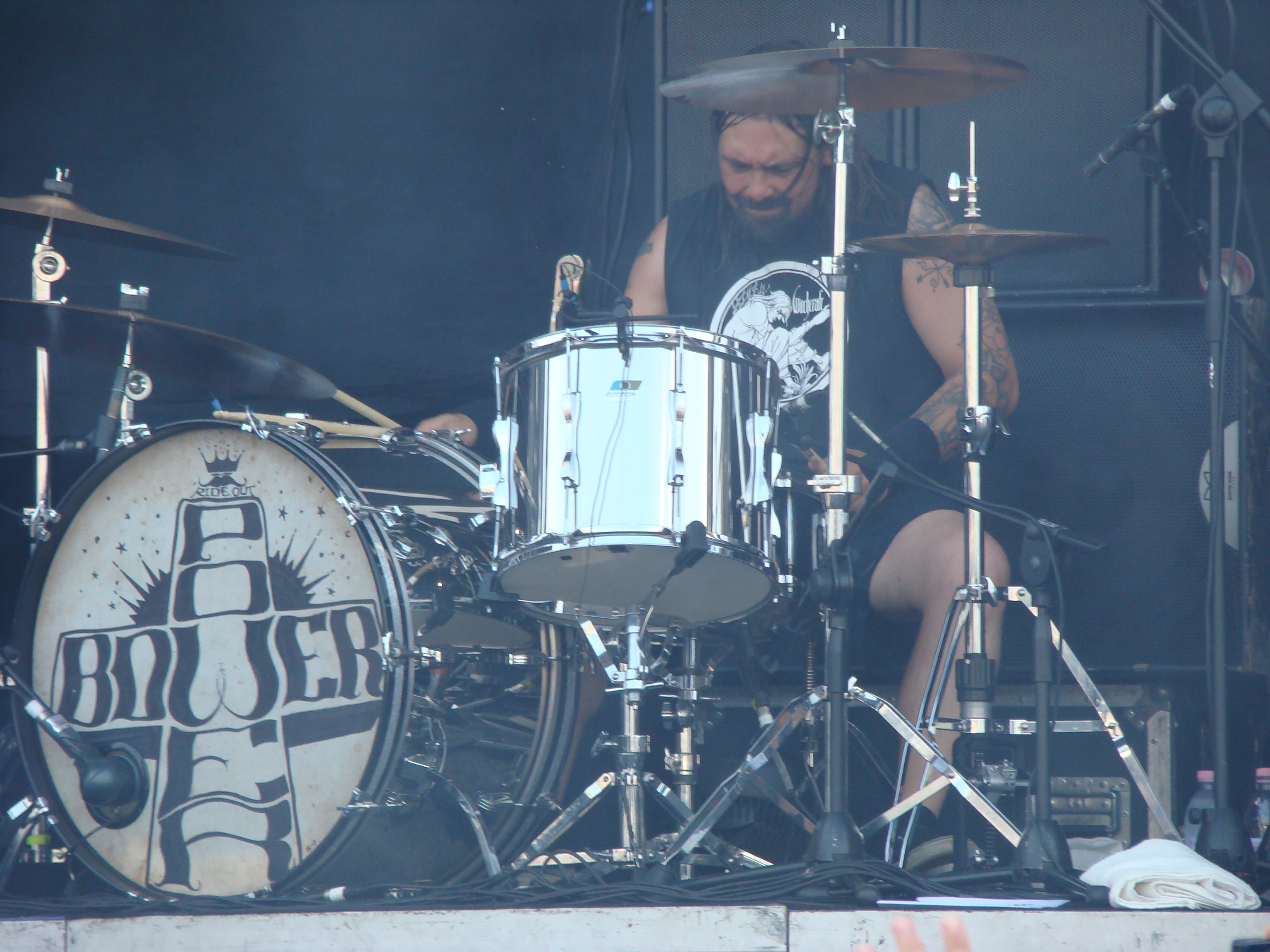 Jimmy Bower, batería de Down, actuando en el festival Gods of Metal.